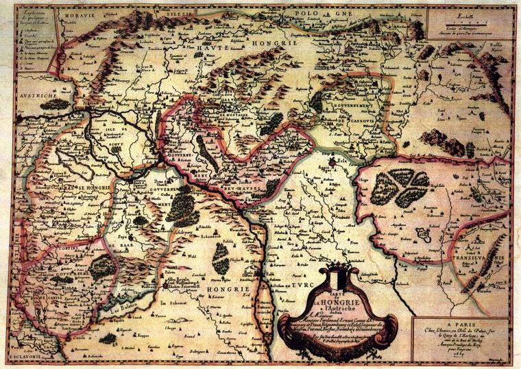 The Kingdom of Hungary in 1664 (French map)